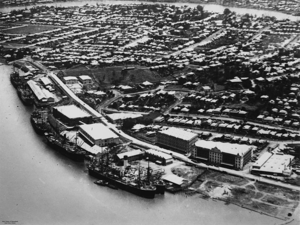 Ships docked at the Teneriffe Wharves, Brisbane, Queensland, ca. 1925 Aerial view of ships docked at the Teneriffe wharves, Brisbane, around 1925. Large buildings in the foreground are the woolstores.